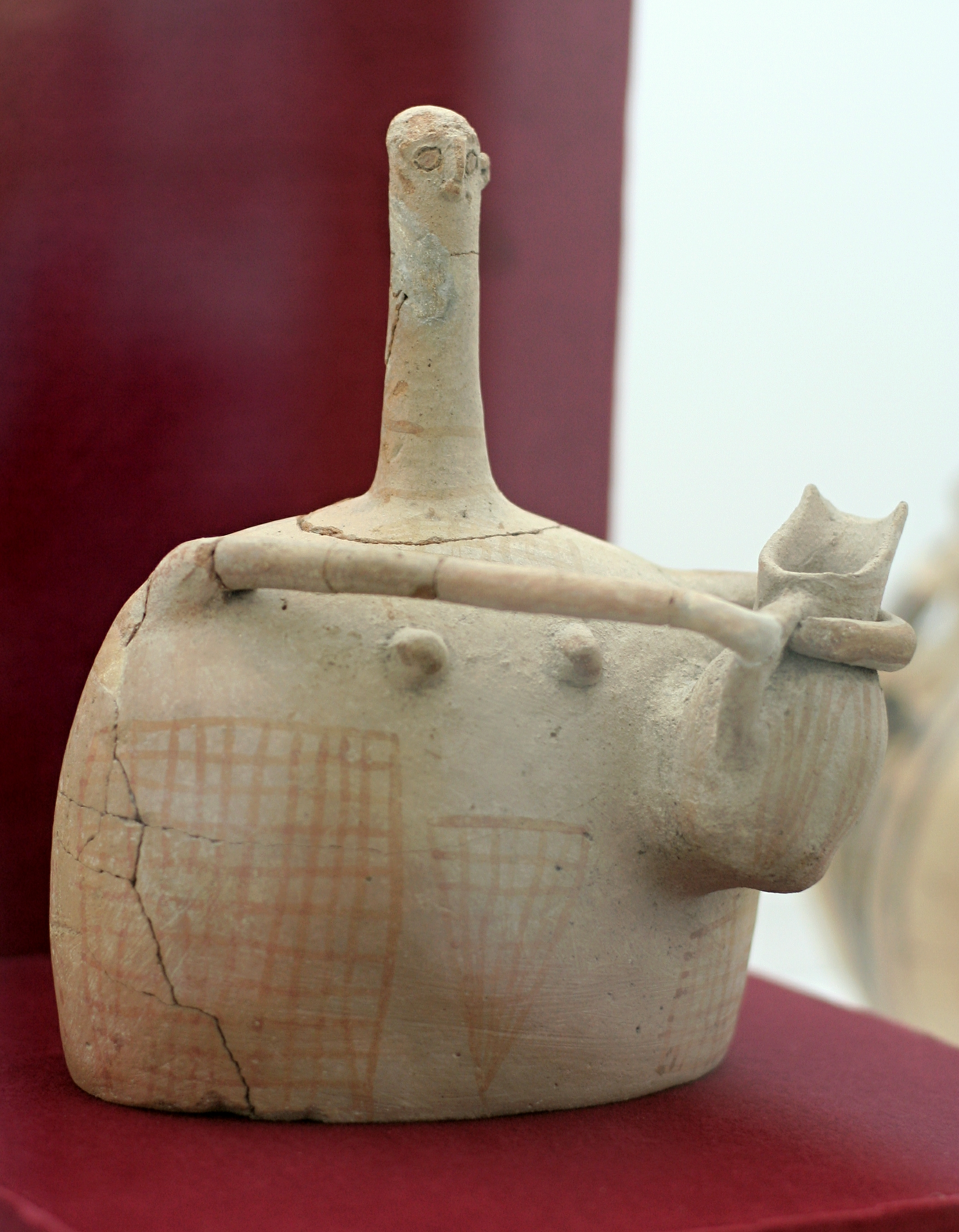 Goddess of Myrtos. Rhyton in the shape of a female figure, painted terracotta. Finding at Early Minoan II settlement on top Phournou Koryphi at Myrtos, 2500-2300 BC. Originally stood at the altar inside the oldest known home shrine of the of Minoan Crete. It has a bell-shaped body, without legs, a long neck and small head. Holding a pitcher. Geometric painting of clothing and of sensitive sites. Archaeological Museum of Agios Nikolaos.